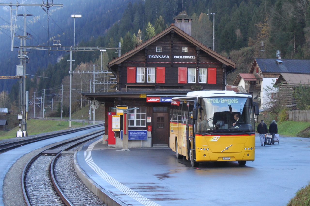 Tavanasa-Breil/Brigels train station with postal bus to Breil/Brigels (number plate GR 2745, Volvo 8700 of contractor Alfons Bearth of Breil/Brigels).